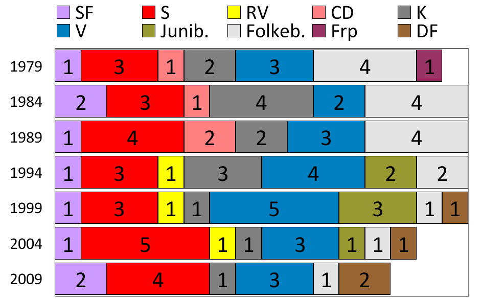 Elected Danish candidates to the European Parliament from 1979 to 2009. The number of Danish MEPs elected was 15 in 1979, 16 from 1984 to 1999, 14 in 2004, and 13 in 2009.